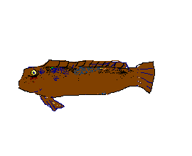 self-drawn draft of Atrosalarias fuscus fish